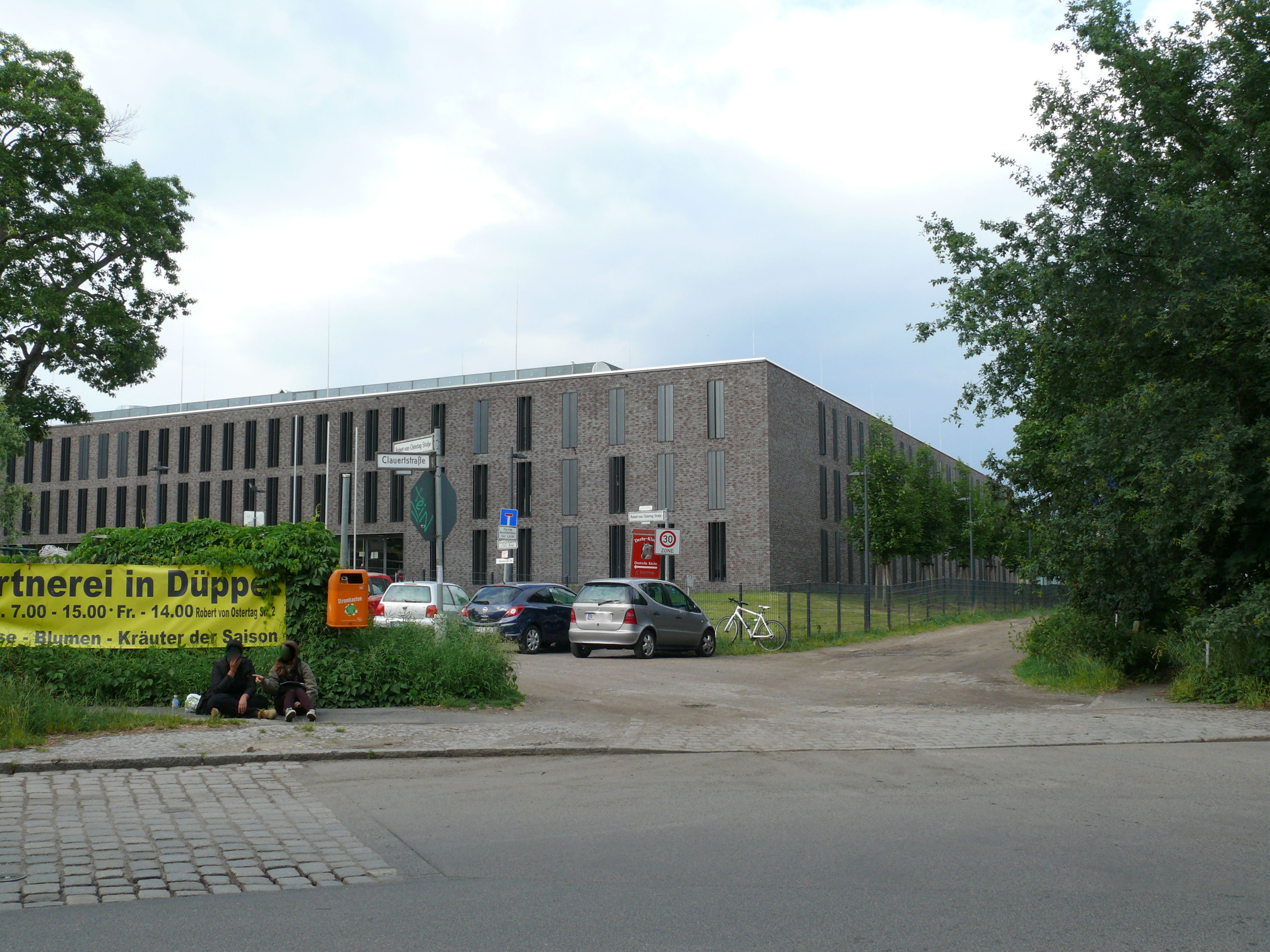 Berlin-Zehlendorf Robert-von-Ostertag-Straße JVA Düppel